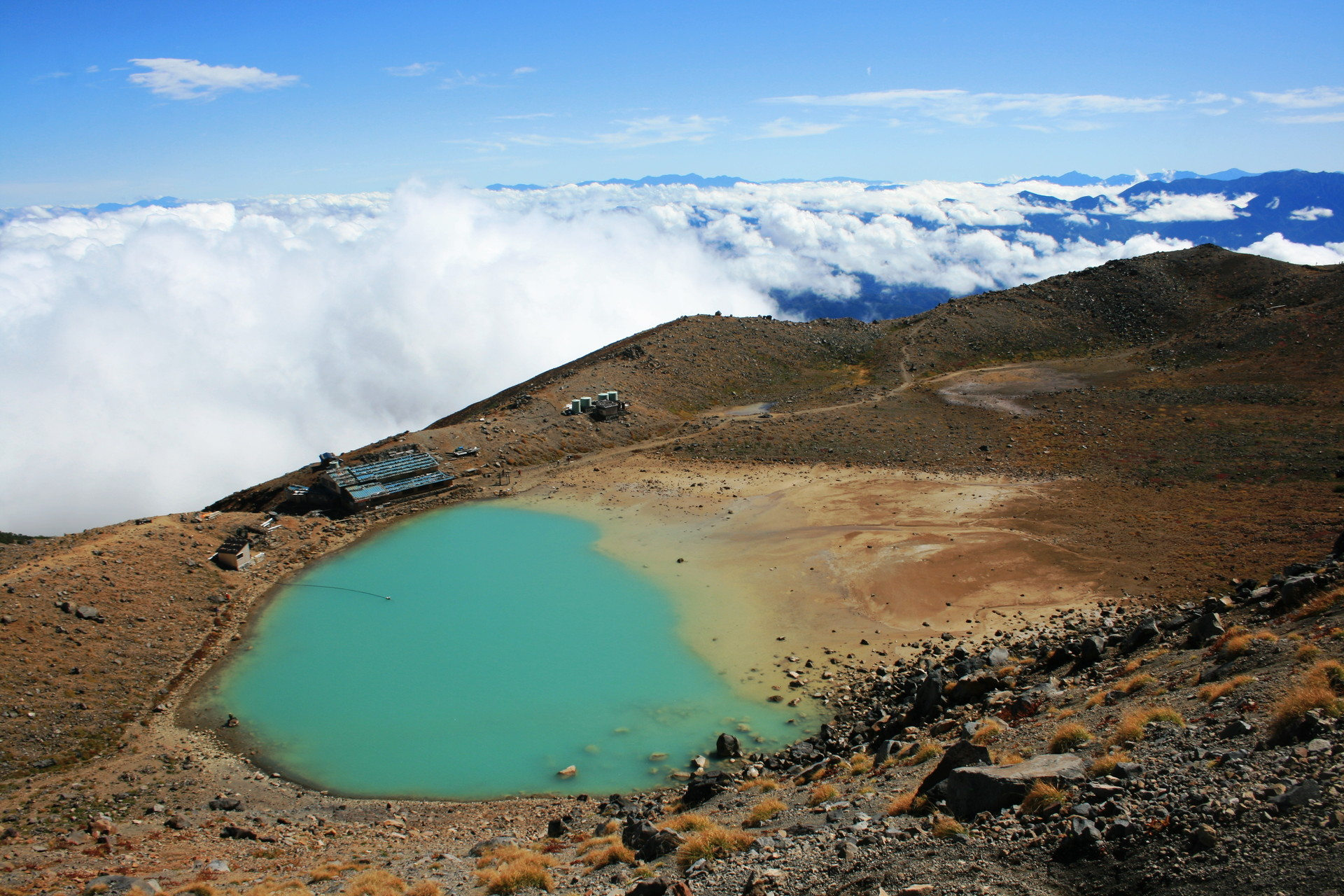 Ninoike (Pond of Mount Ontake)